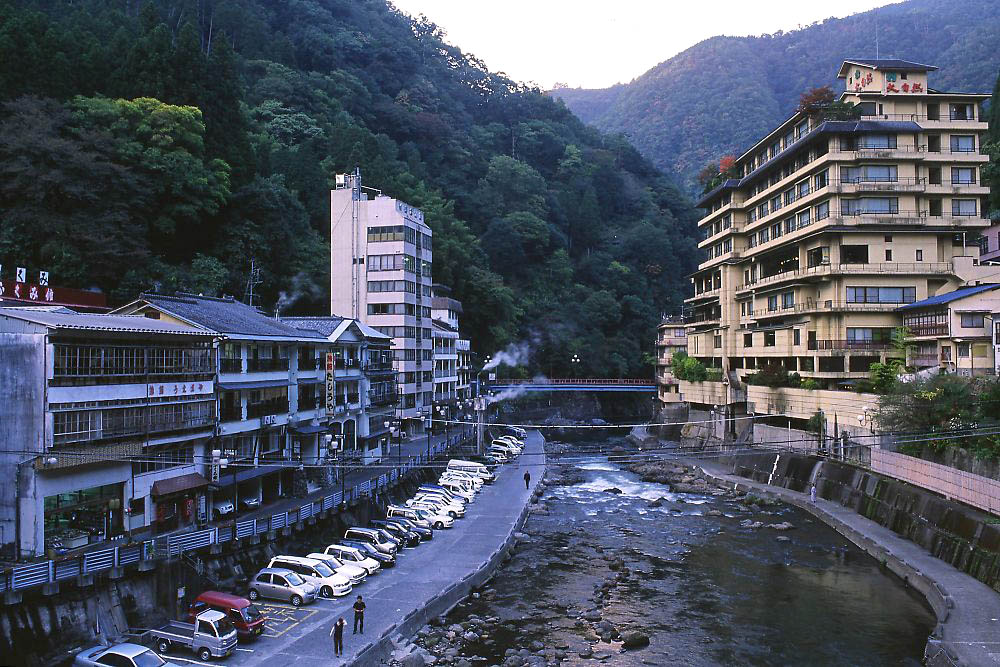 Oguni, Kumamoto, Japan. The town looking North (from the bridge). I own this picture (I took it) and I offer this image under the Attribution ShareAlike 2.5 license. See source image (I own it) at